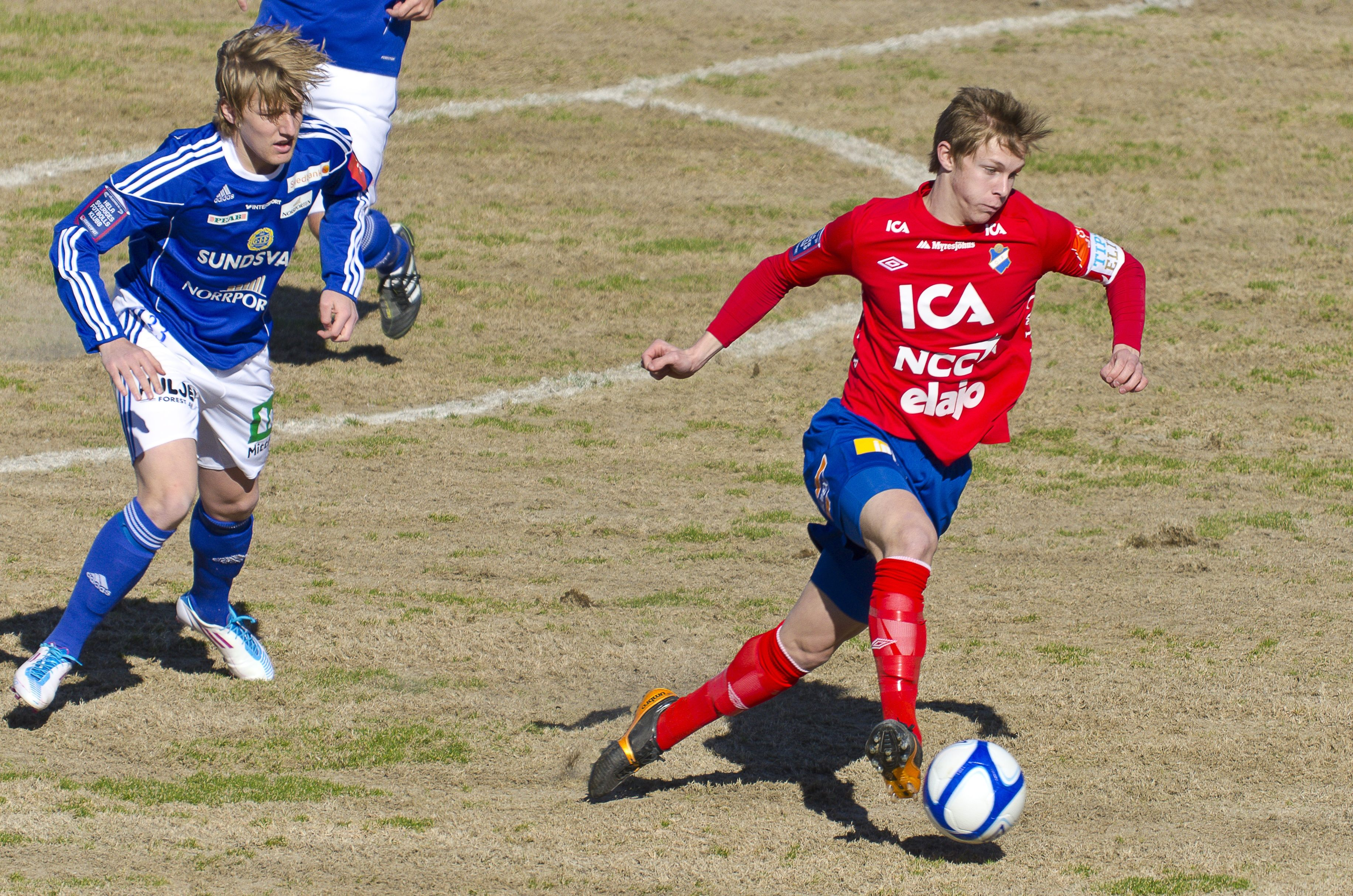 Swedish footballer Emil Krafth of Östers IF in the 2011 Superettan season opening game against Sundsvall i Växjö.